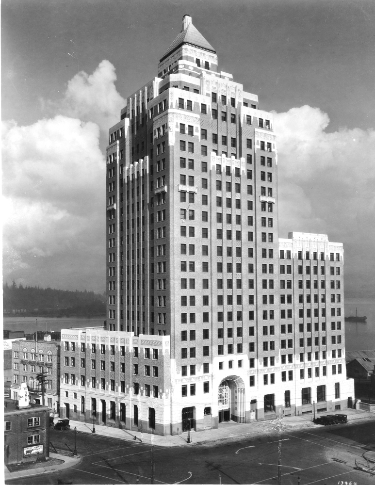 The Marine building in Vancouver, Canada.